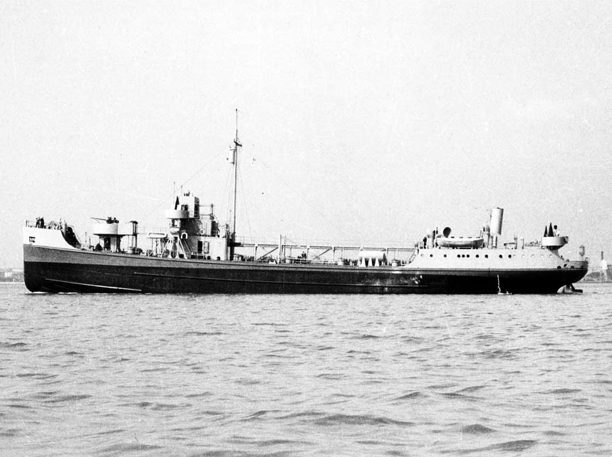 The U.S. Navy gasoline tanker USS Aroostook (AOG-14) underway in either the Chesapeake Bay or Hampton Roads (USA) in late April 1943 just after conversion and just before departing for the Mediterranean. The ships seems to wear Camouflage Measure 2.